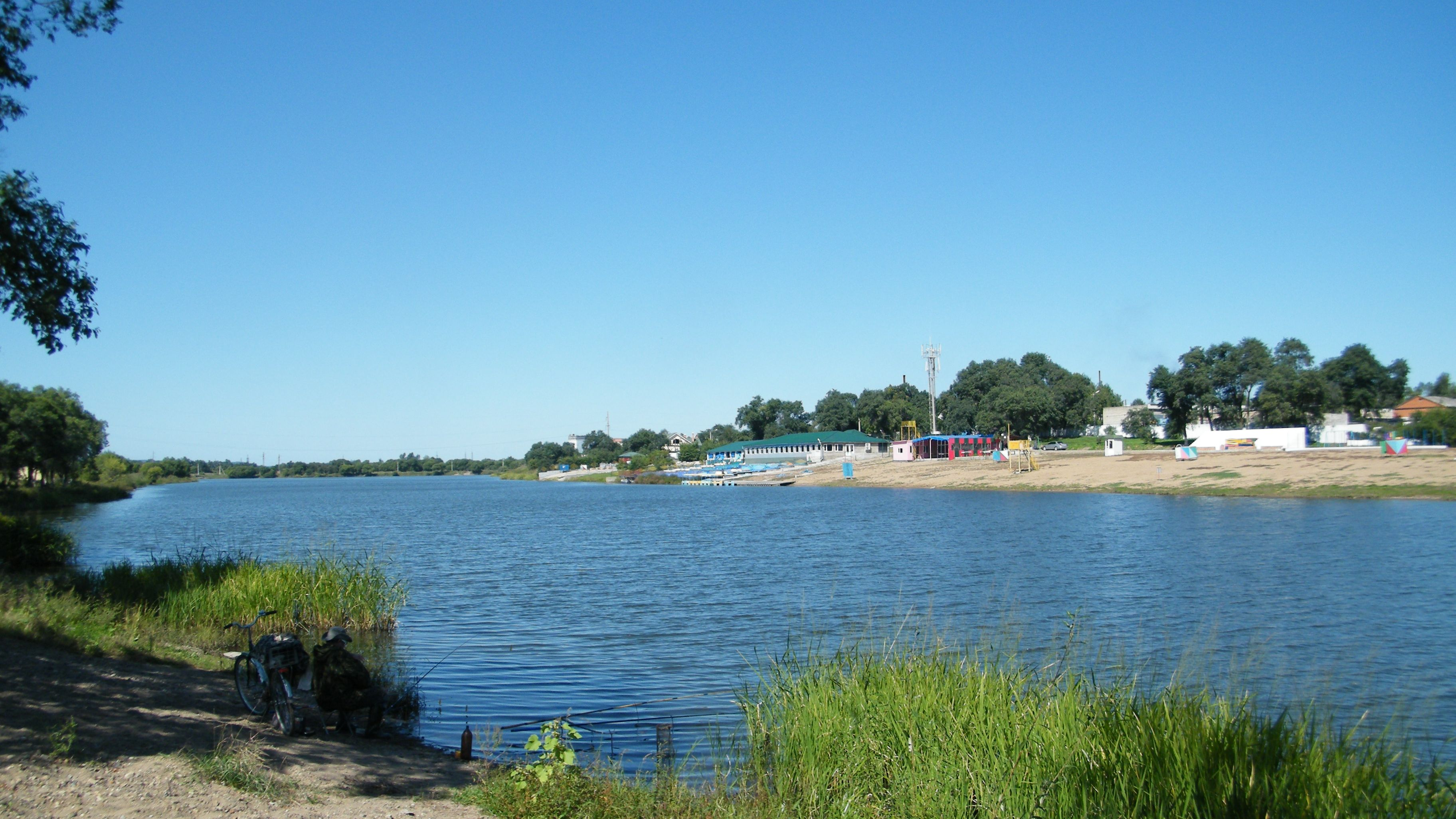 Уссурийск Солдатское озеро 2011 год